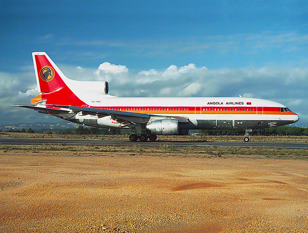 A TAP Air Portugal Lockheed L-1011-385-3 TriStar 500 wearing a TAAG Angola Airlines at Faro Airport (FAO / LPFR)